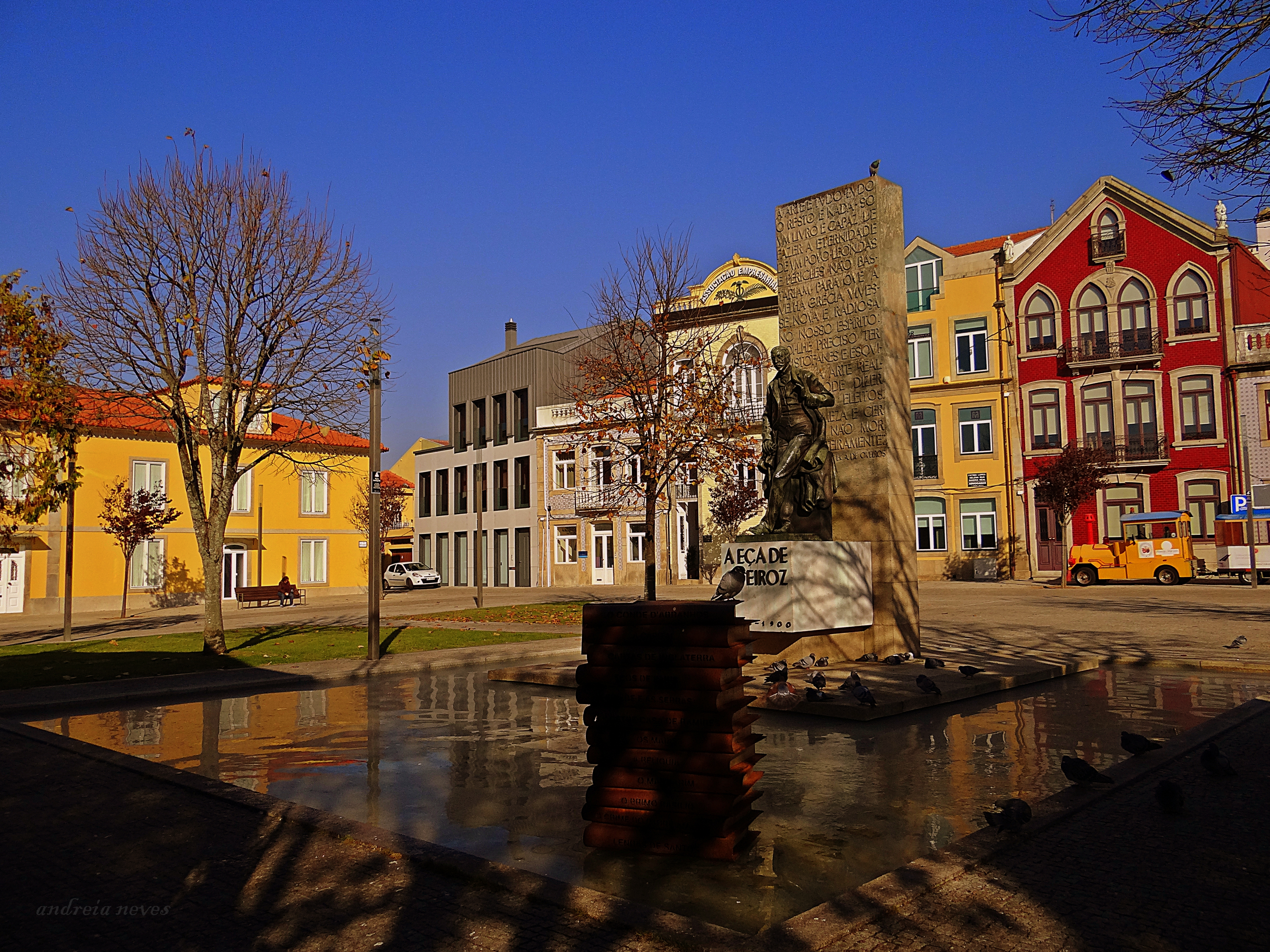 Eça de Queirós, Praça do Almada